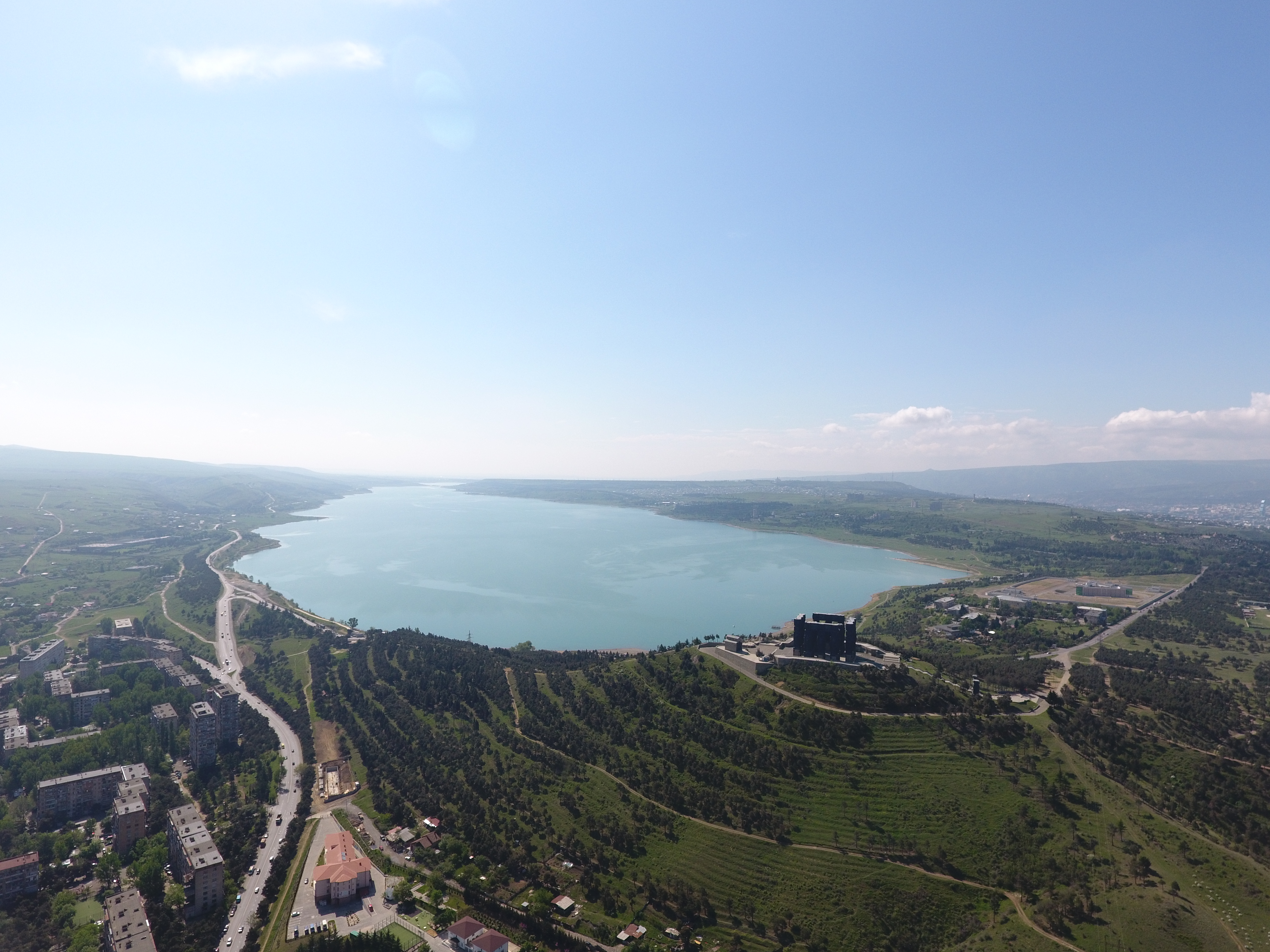 Tbilisi sea